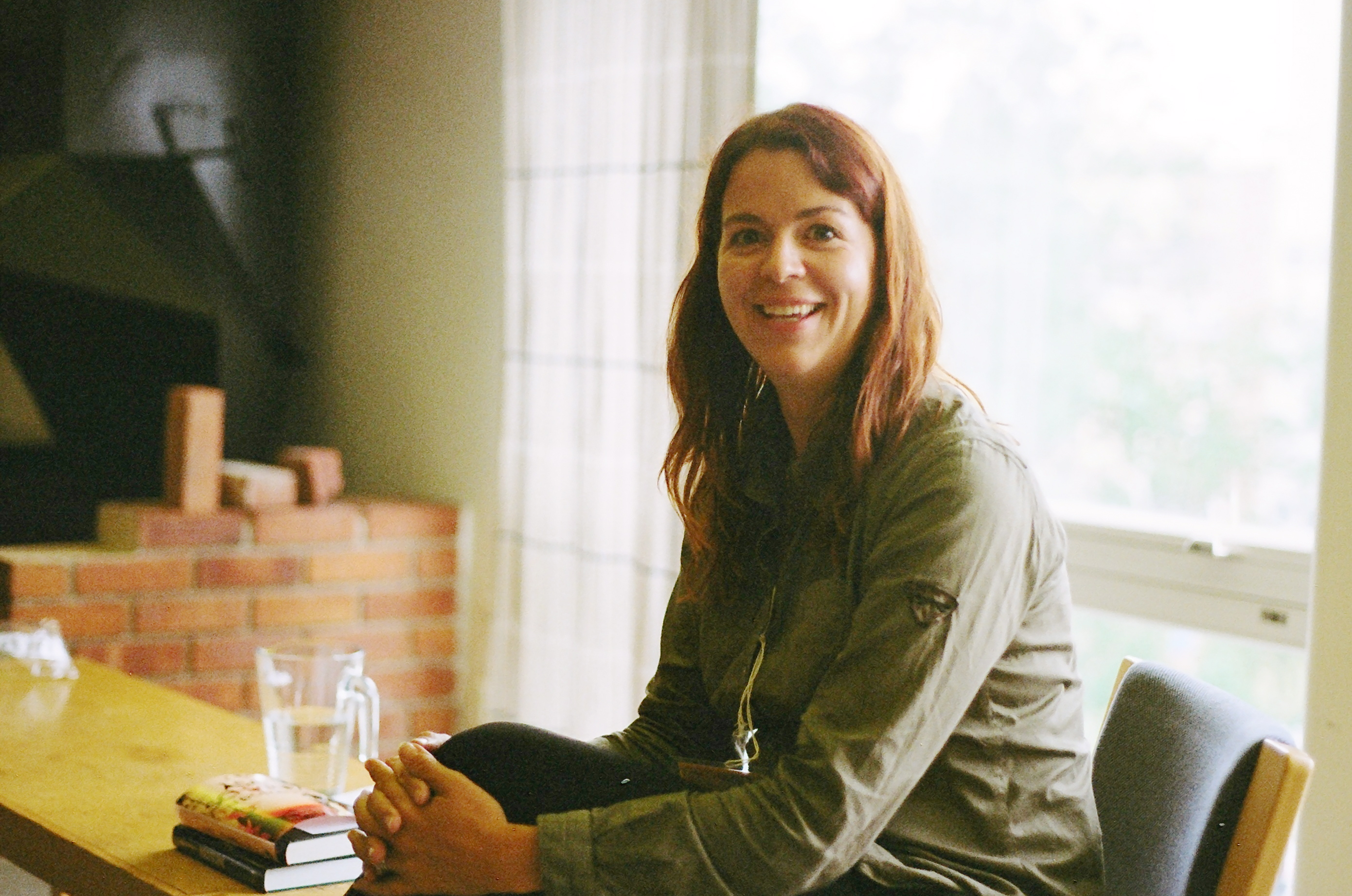 Åsa Schwarz. Eurocon 2011 in Stockholm.